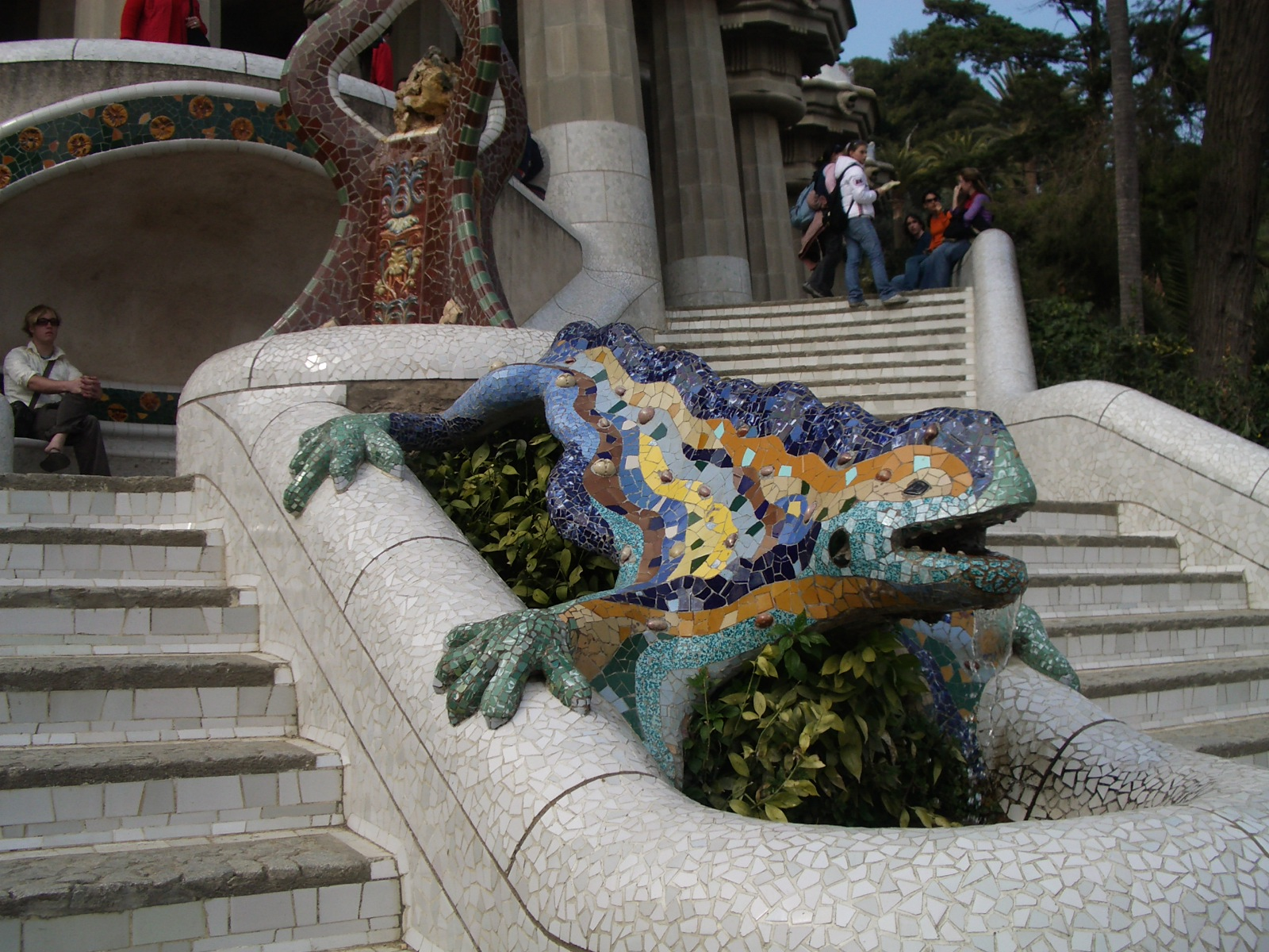 Image of the multi coloured mosaic dragon fountain at the main entrance to Park Guell in Barcelona